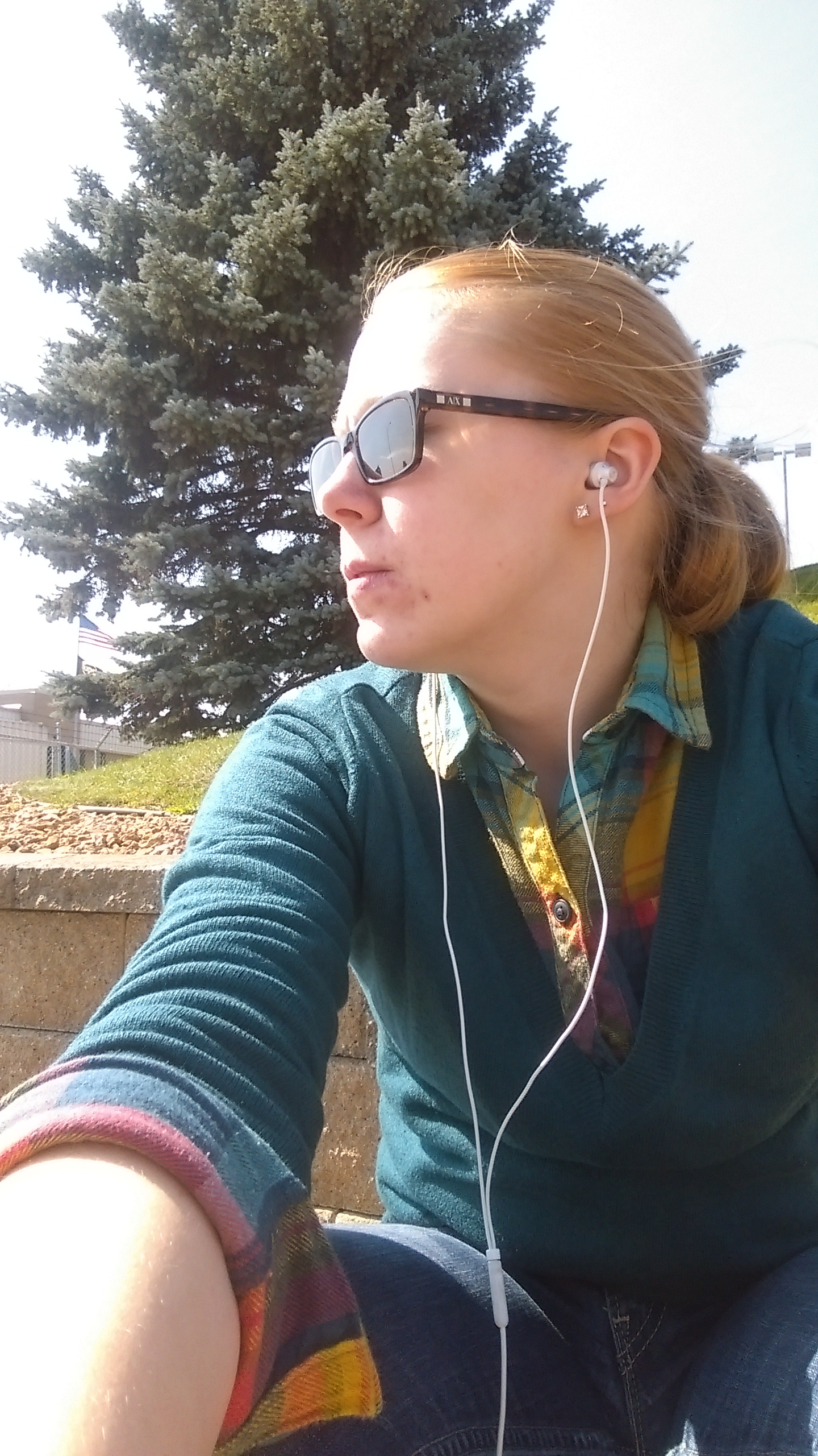 Me wearing sunglasses.